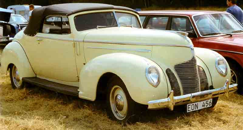 Hudson Country Club Six (Series 93) Convertible Coupé (1939)